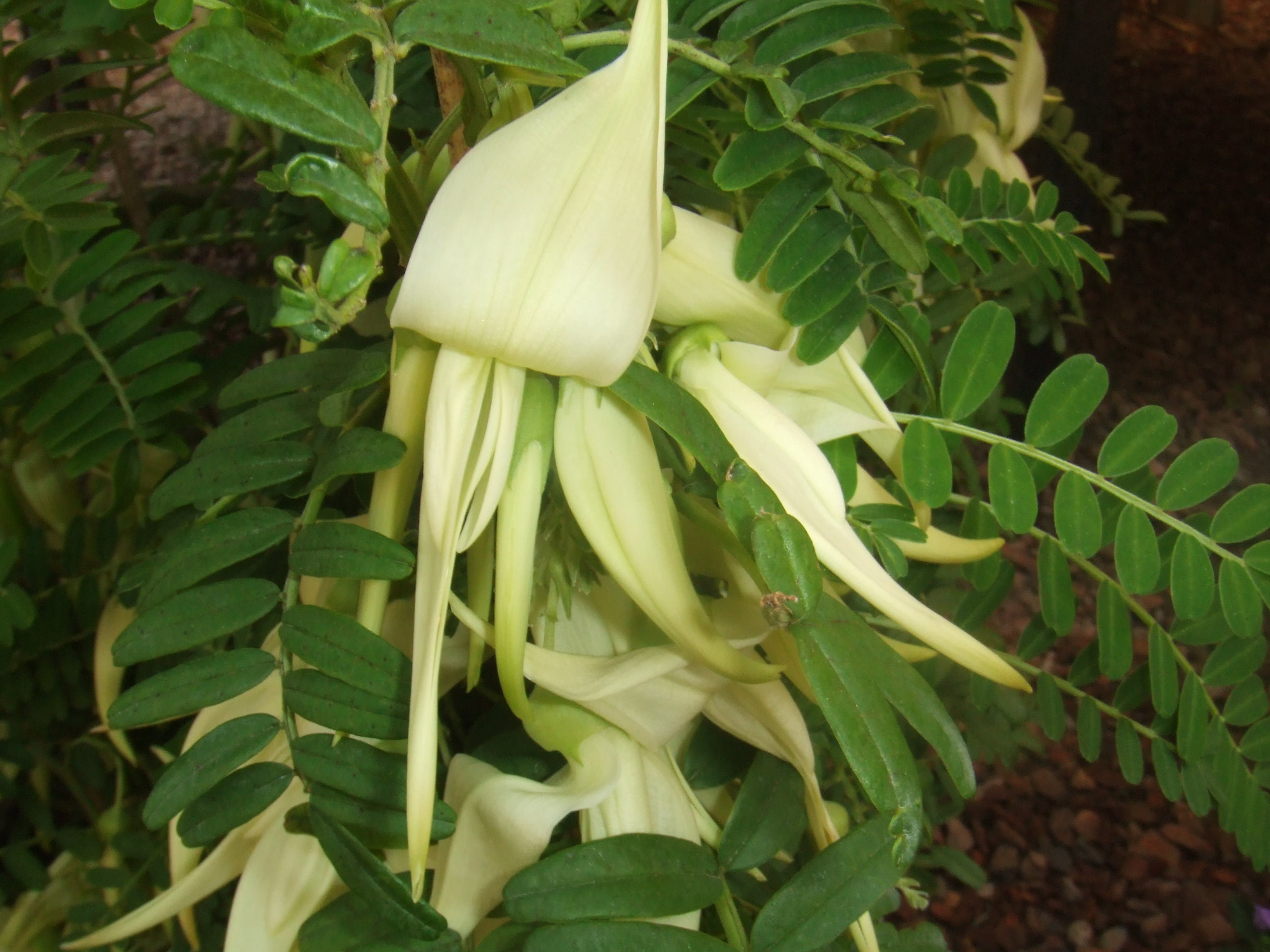 Clianthus puniceus 'Album', picture taken at the Botanische tuin TU Delft in Delft, The Netherlands